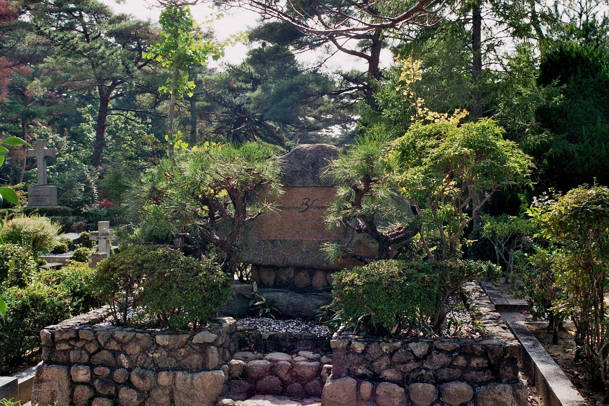 Grave of Hermann Bohner located at the Foreigner's Cemetary on Futatabiyama near Kobe.